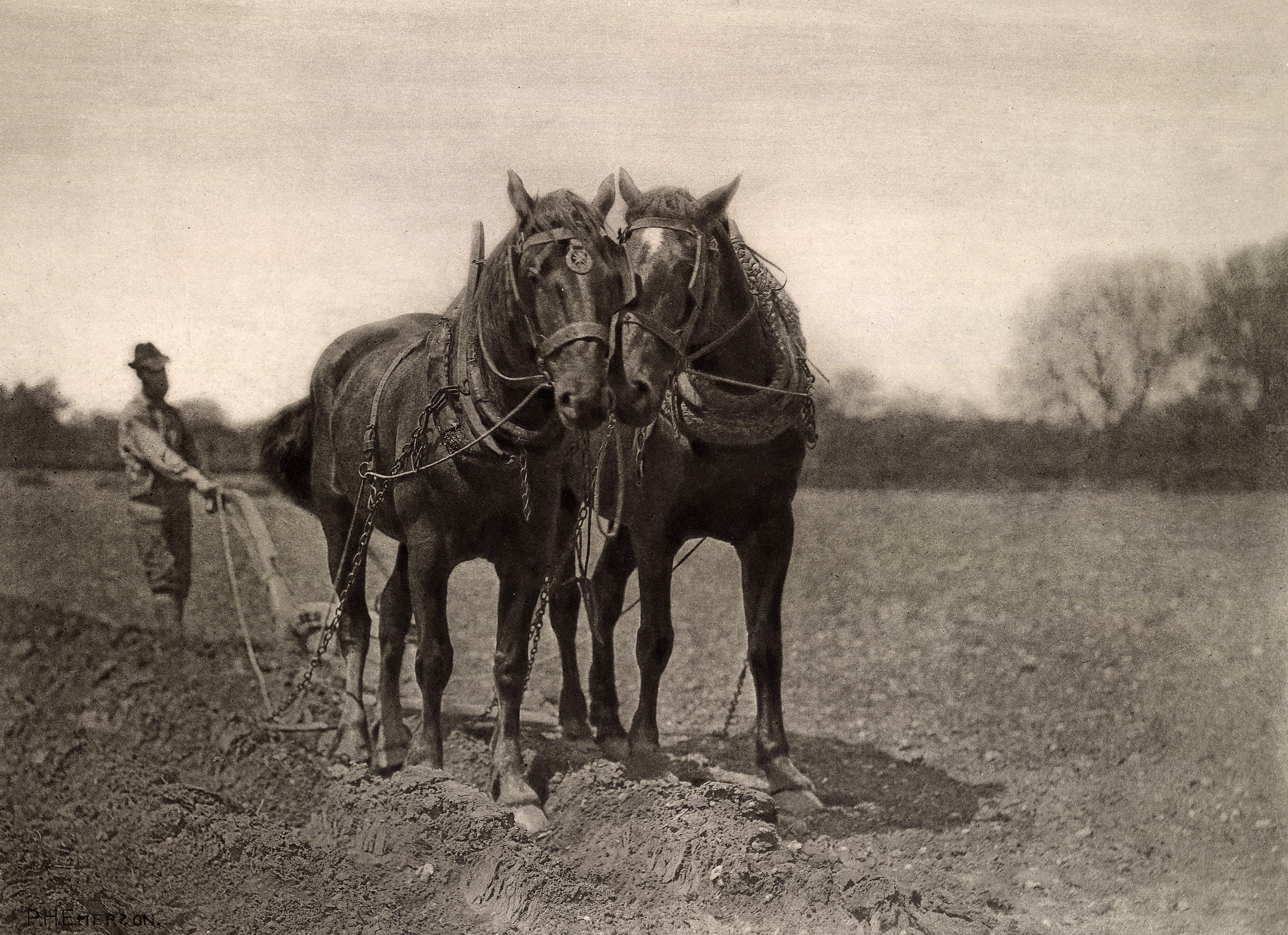 At Plough, The End of the Furrow. Scene of country life in East Anglia, England.